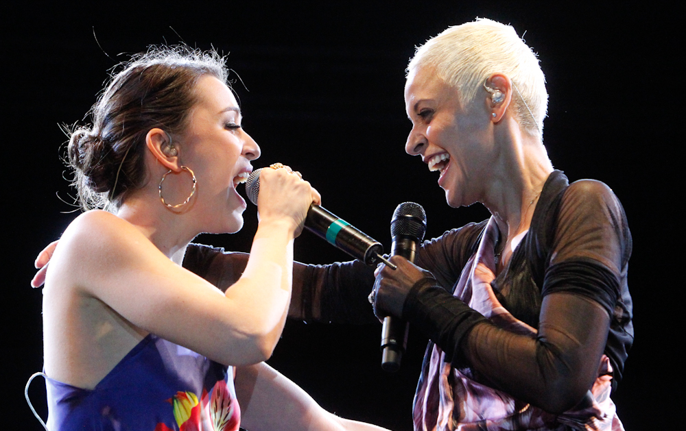 Roberta Sá and Mariza - Year of Portugal in the Brazil